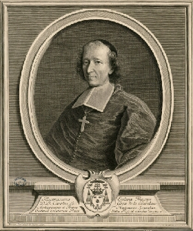 French prelate, Charles Le Goux de La Berchère, (1647-1719)